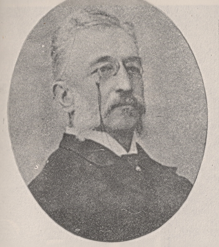 The Viscount of Ouro Preto, last President of the Council of Ministers of the Empire of Brazil.